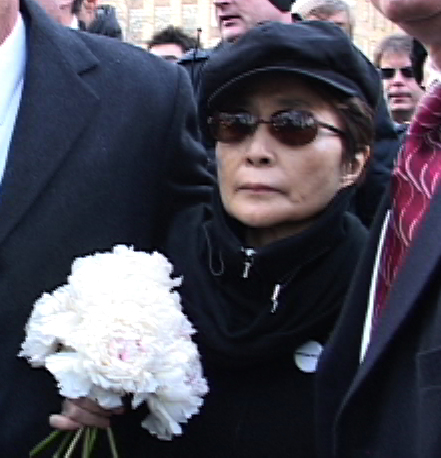 Yoko Ono delivers flowers to John Lennon's memorial, Stawberry Fields, Central Park, NYC. Captured by Rocketboom.